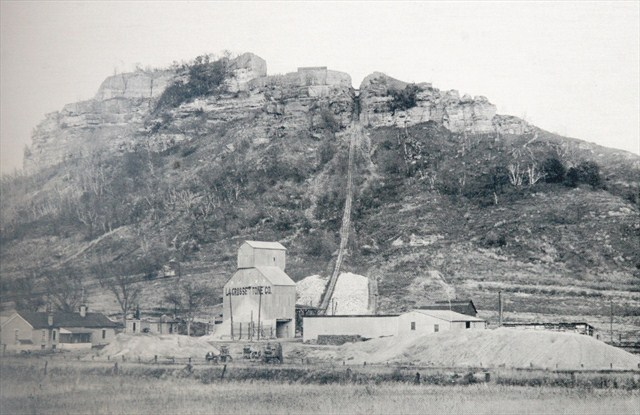 Historic image of Grandad Bluff with a quarry operation in the foreground